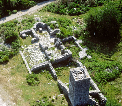 Remains of the medieval Prečista Krajinska Church, at the village of Ostros near the town of Bar, south Montenegro